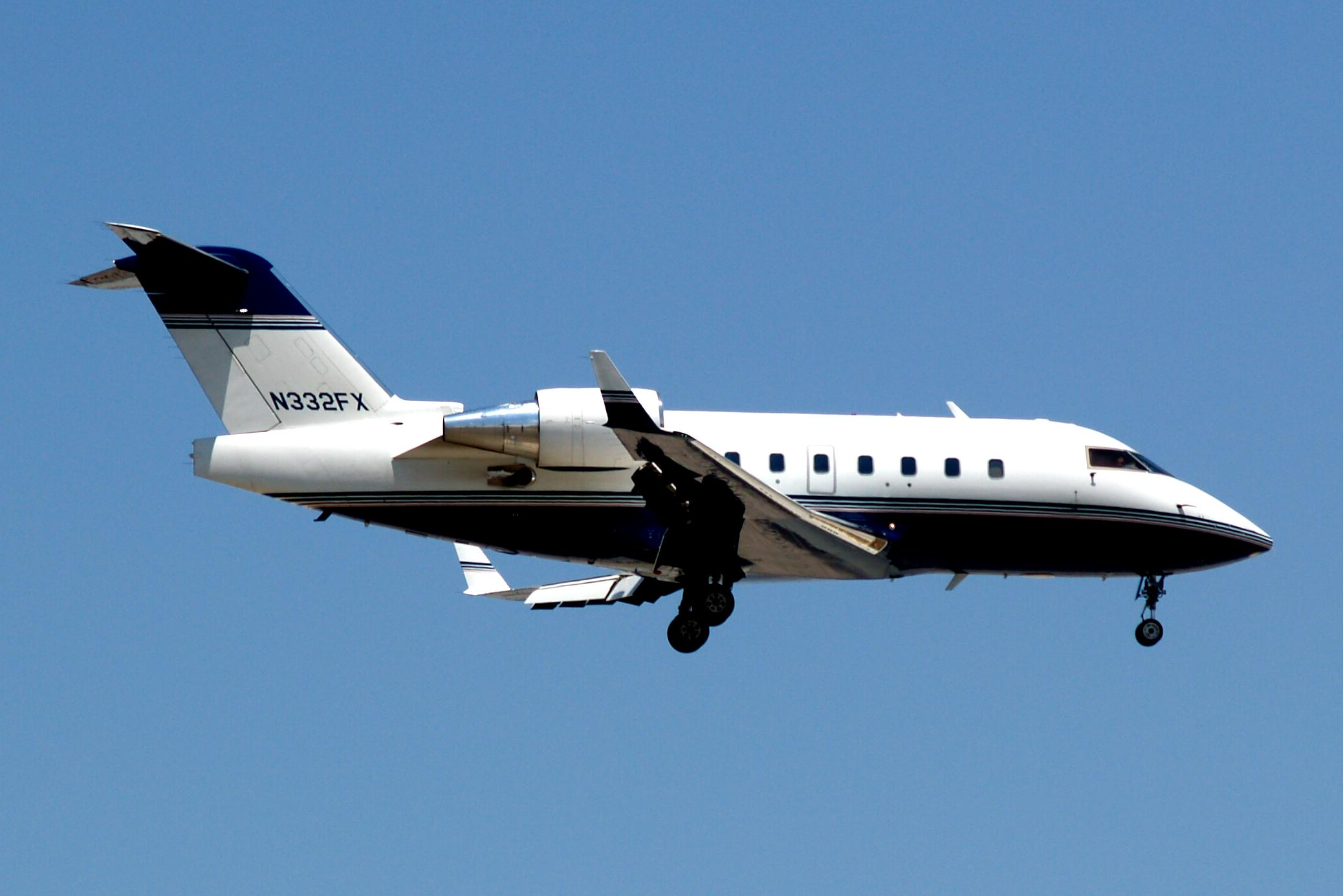 Bombardier Aerospace Canadair 604 Challenger N332FX.Bombardier Aerospace Canadair 604 Challenger N332FX